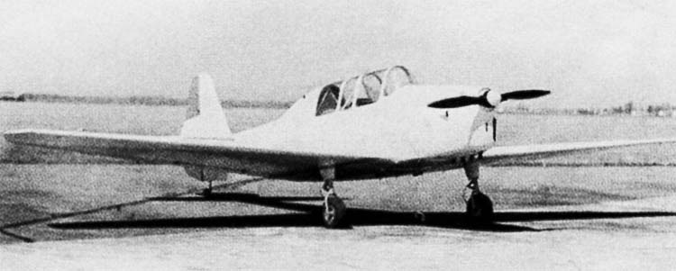 The Argentine light aircraft I.Ae. 31 'Colibrí' built by FMA.